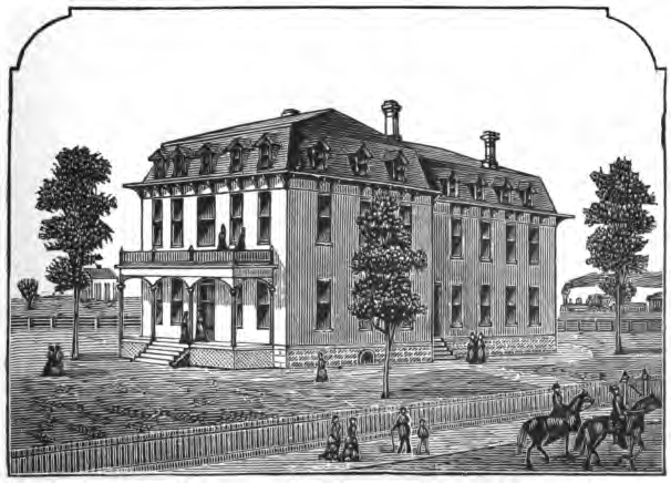 The former Lausanne Hall at Willamette University